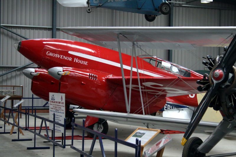 De Havilland DH 88 Comet Racer "Grosvenor House", winner of the 1934 MacRobertson Air Race, at Shuttleworth Collection.